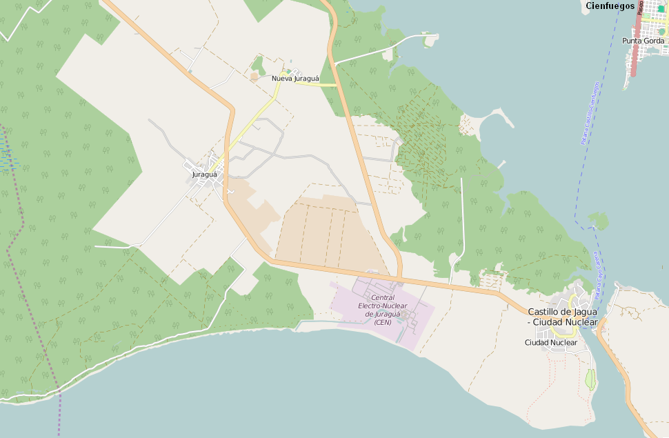 This map may be incomplete, and may contain errors. Don't rely solely on it for navigation.